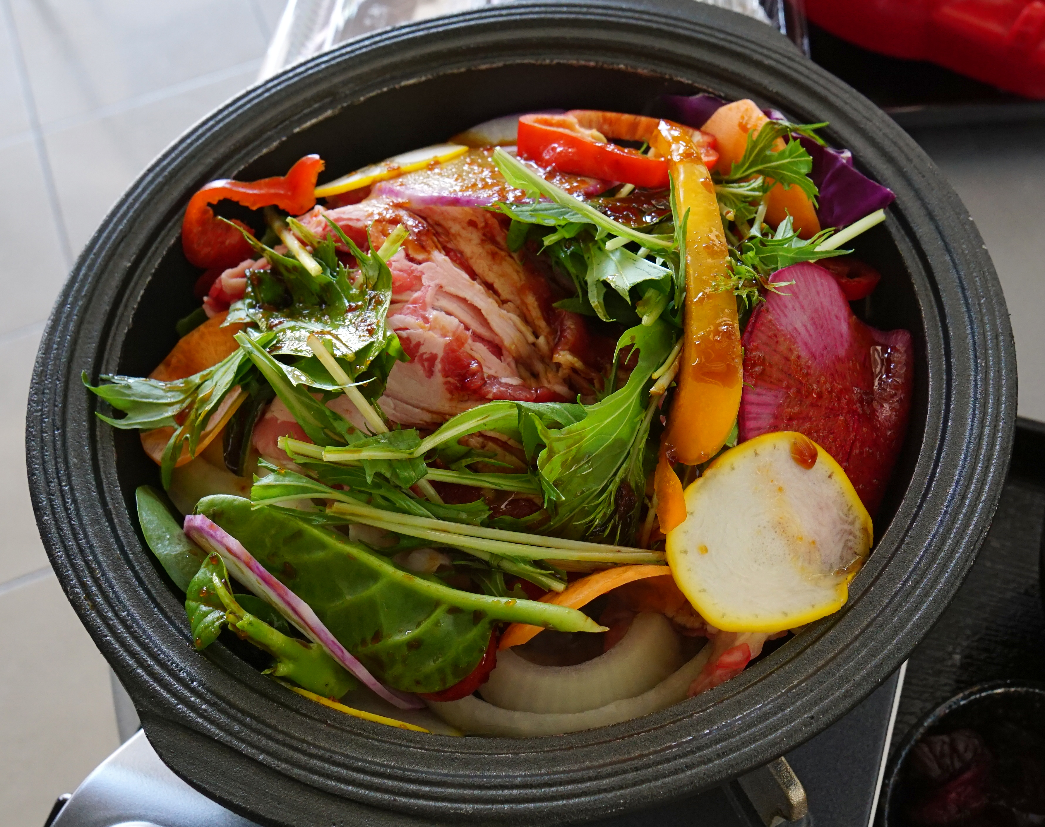 At Misawa Aviation & Science Museum, Aomori in Misawa, Aomori prefecture, Japan.